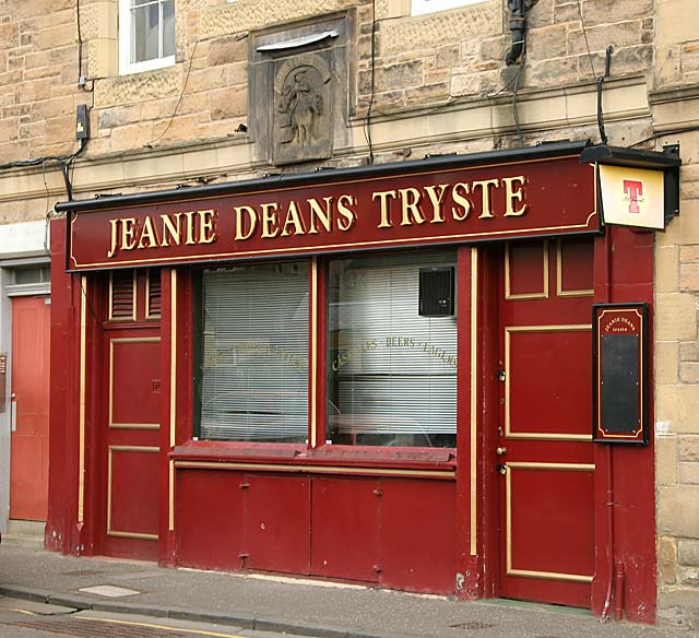 I took this photograph myself for the purposes of including it in wikipedia account of 'Jeanie Deans' after whom this pub is named.